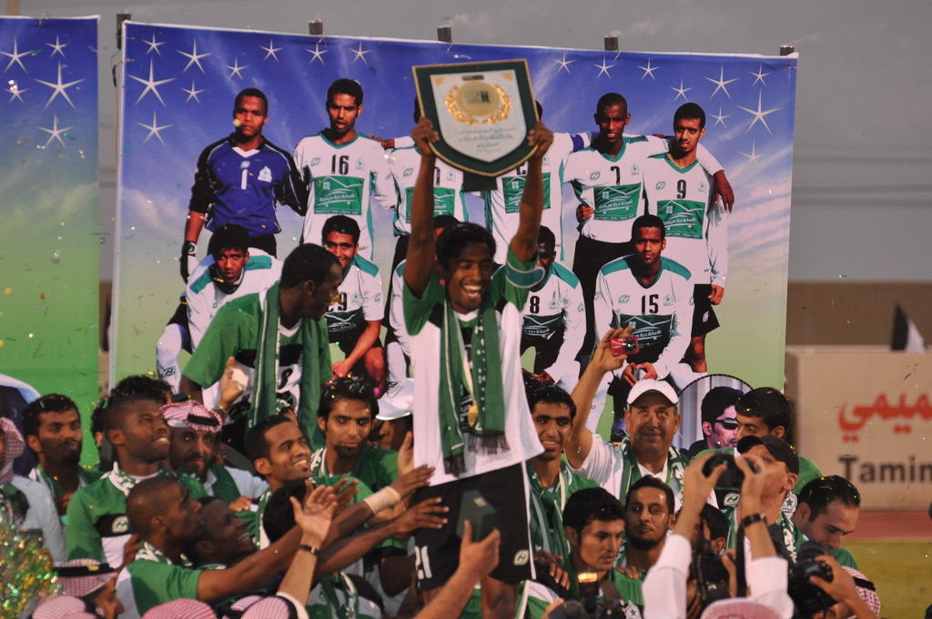 Al-Najma champion 2010 of saudi second division.